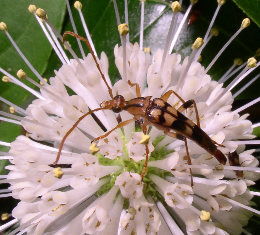 Flower longhorn, Strangalia luteicornis, on buttonbush. Churchville Nature Center, Bucks County, Pennsylvania, USA.